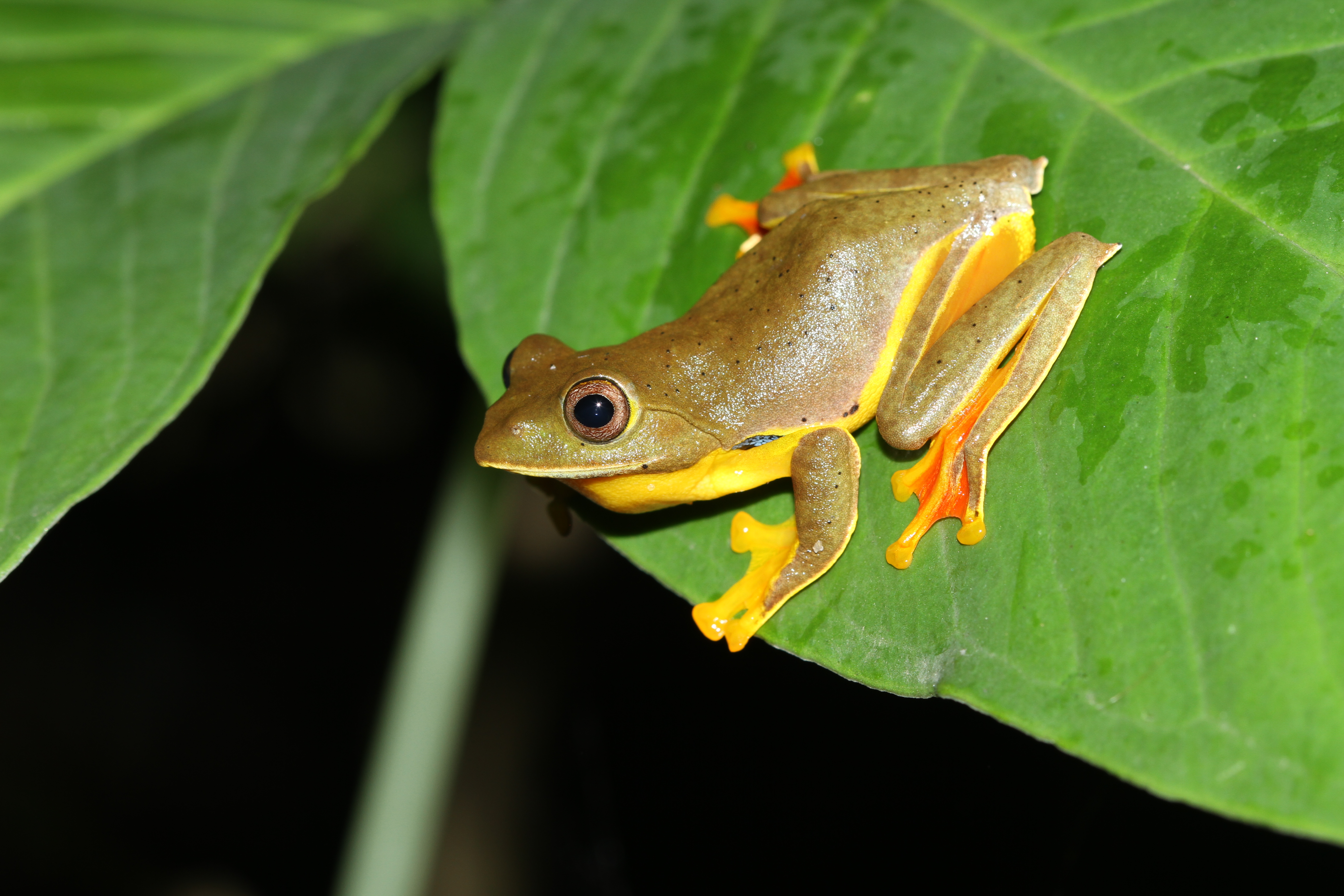 Rhacophorus bipunctatus an endemic frog from the Khasi Hills in India